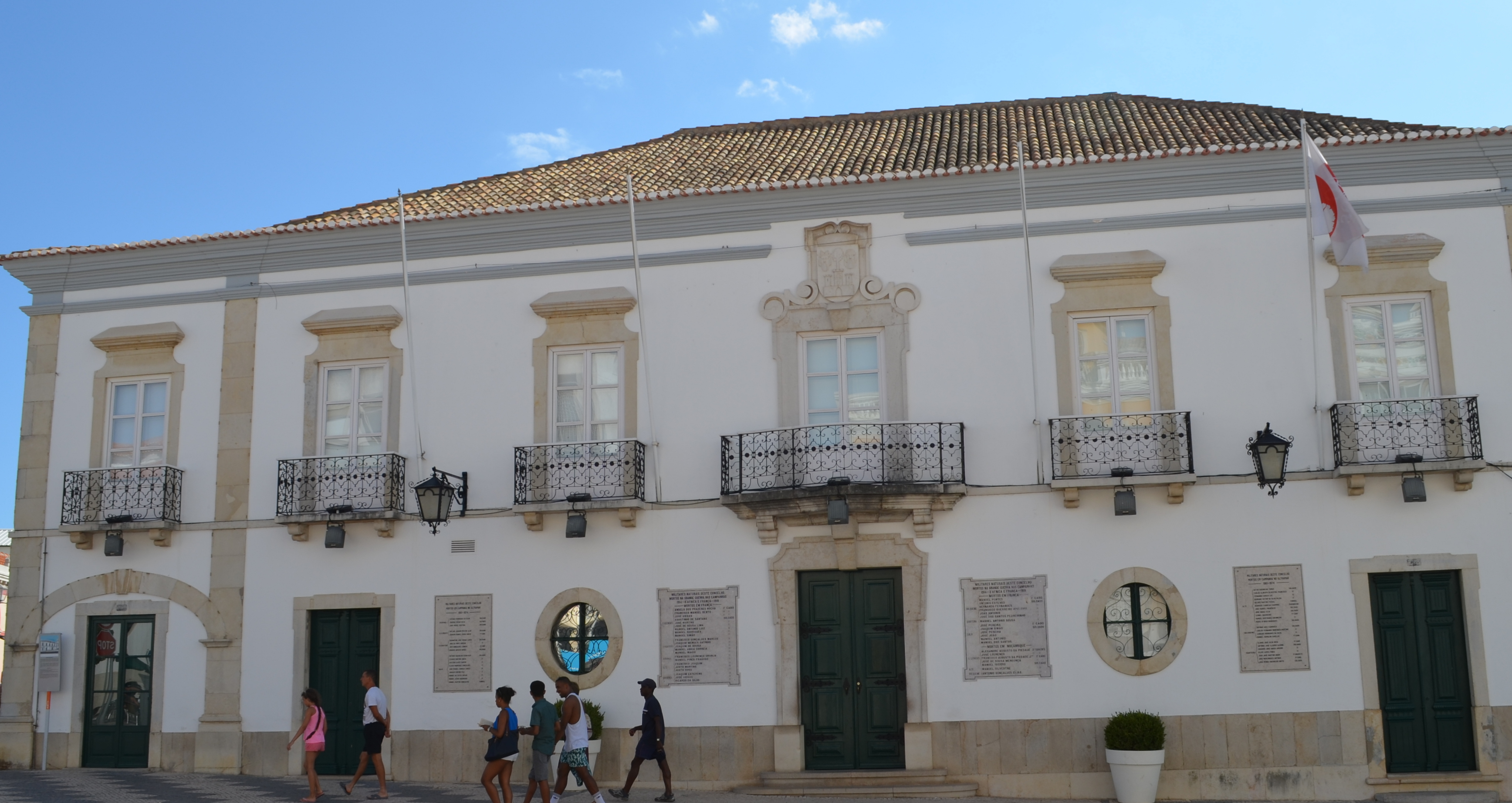 Loulé, Faro district, Portugal.